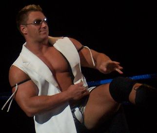 Sylvain Grenier, during his tenure in his model persona. Sylvain Grenier, connu sous le pseudonyme de Sylvan, (né le 26 mars 1977 à Montréal dans la province de Québec au Canada) est un catcheur québécois. Photo taken by me at the November 7, 2005 WWE SmackDown! house show in Lexington.